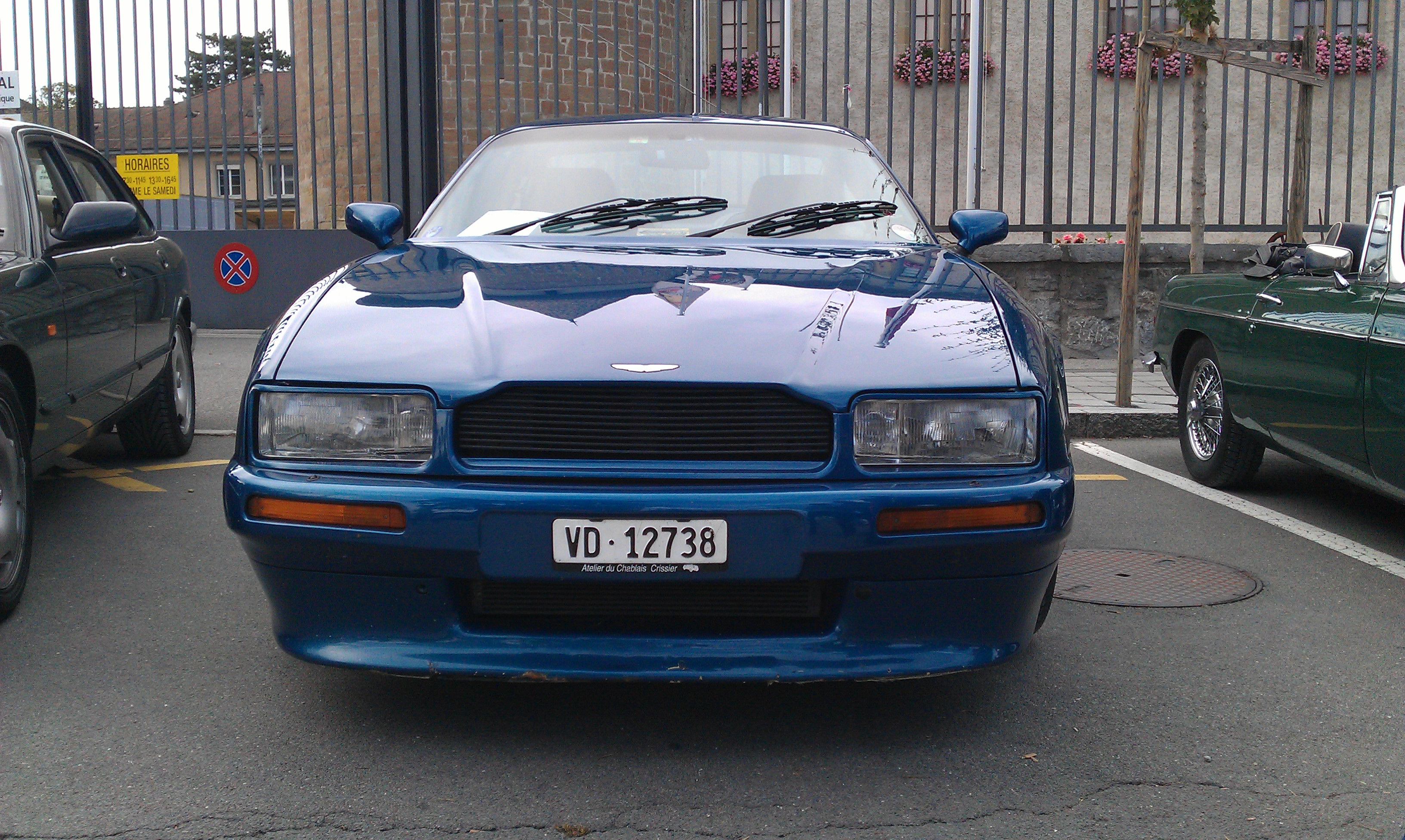 1997 Aston-Martin Virage